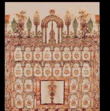 a Miniature from the Umayyad period, this is from the Sana'a Grand mosque Manuscripts, pictured in 2006.